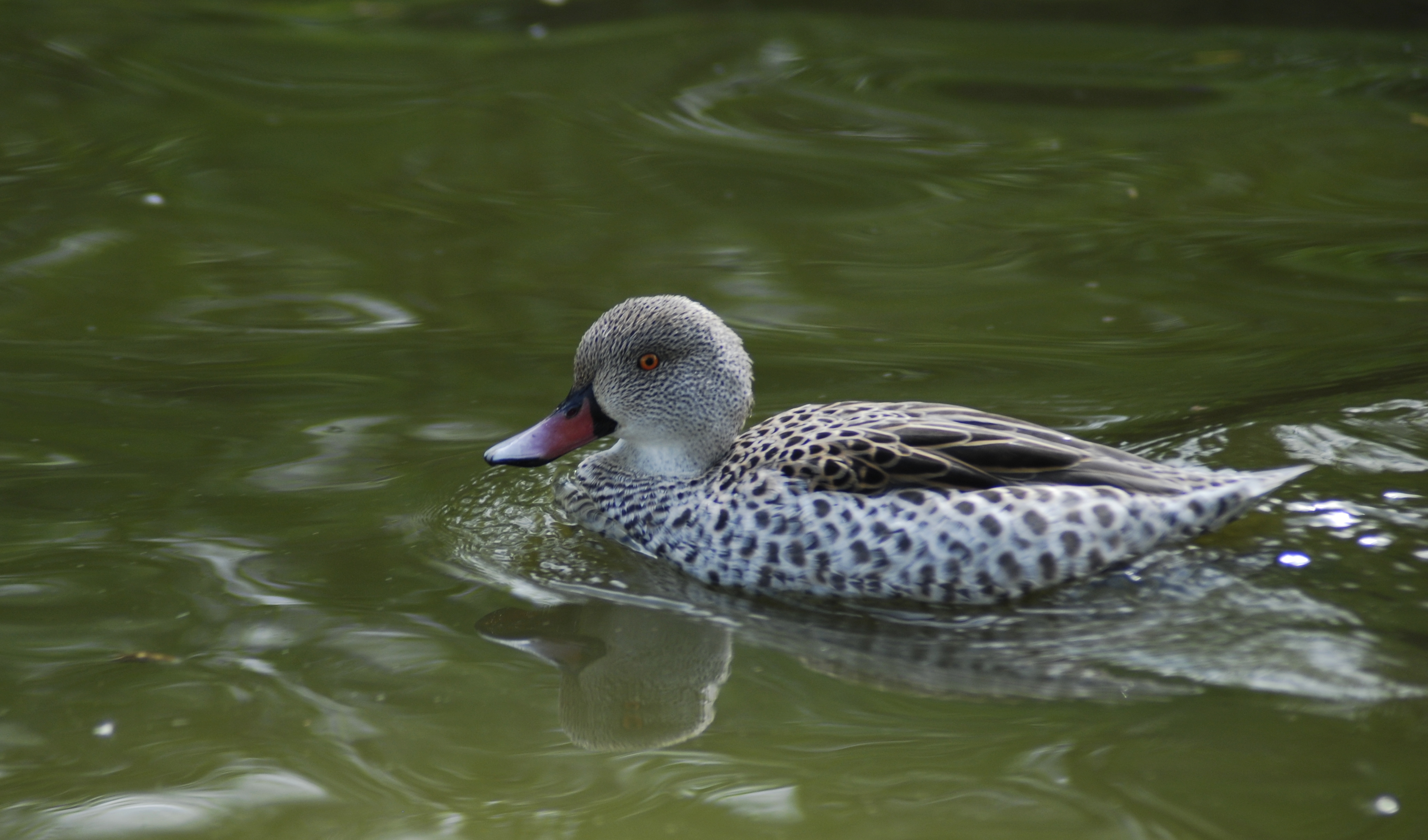 Cape teal (Anas capensis)